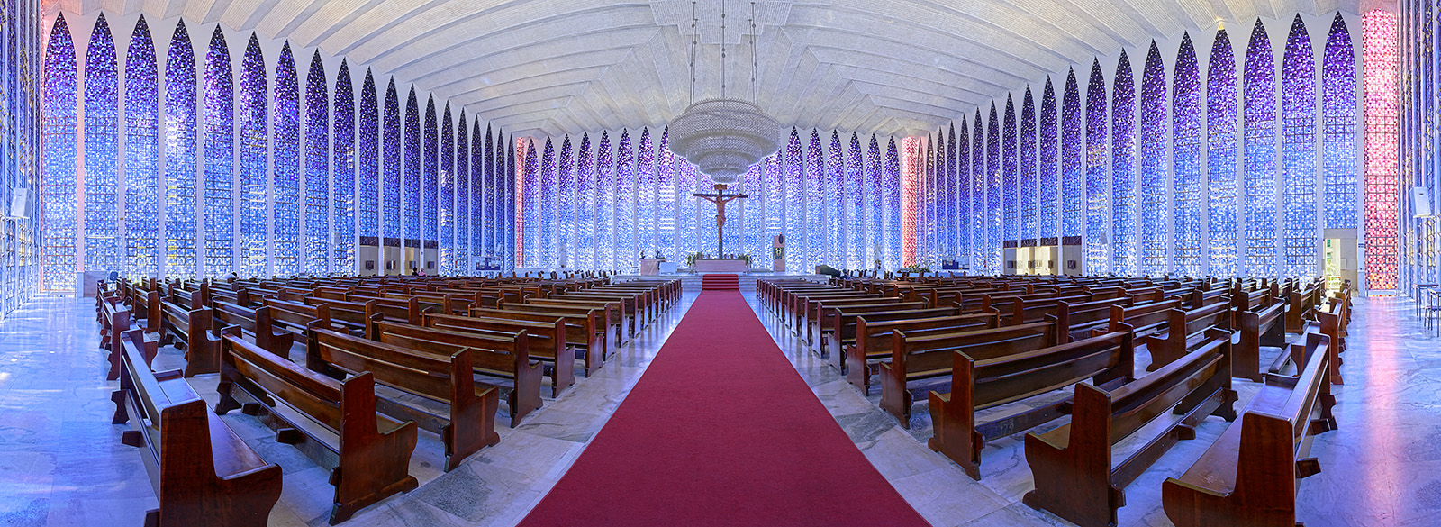 Panoramic interior view of the Dom Bosco church in Brasília, Brazil.